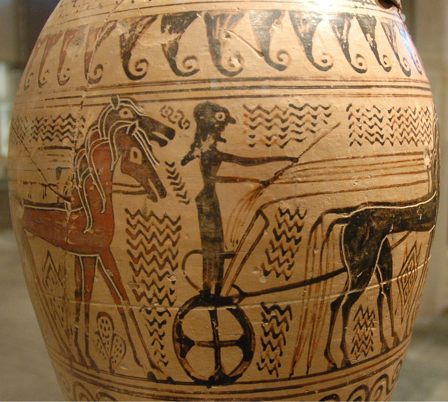 Couples dancing to the sound of the aulos. Neck of a proto-Attic loutrophoros.